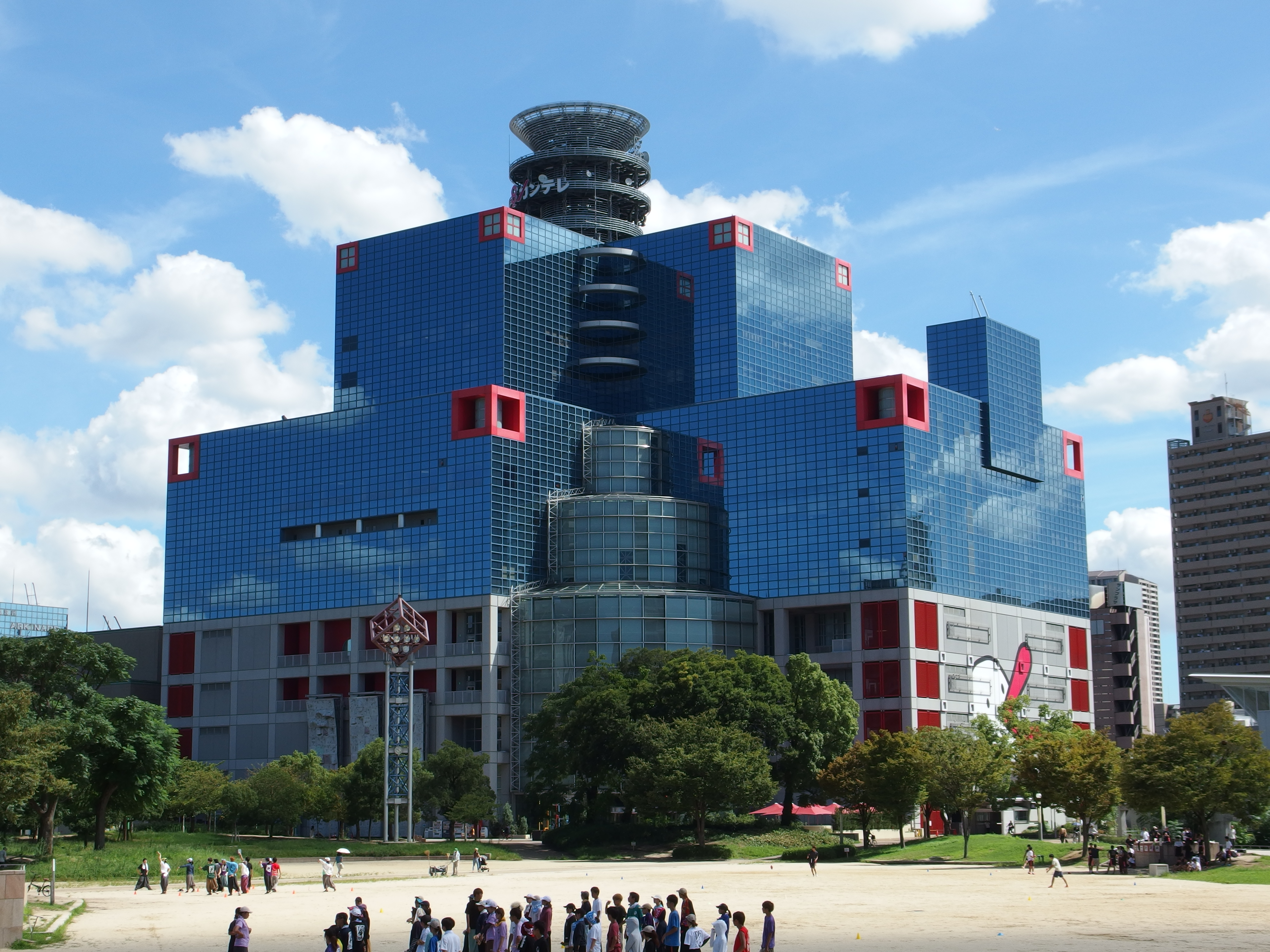 Kansai Telecasting Corporation in Osaka, Osaka Prefecture, Japan.